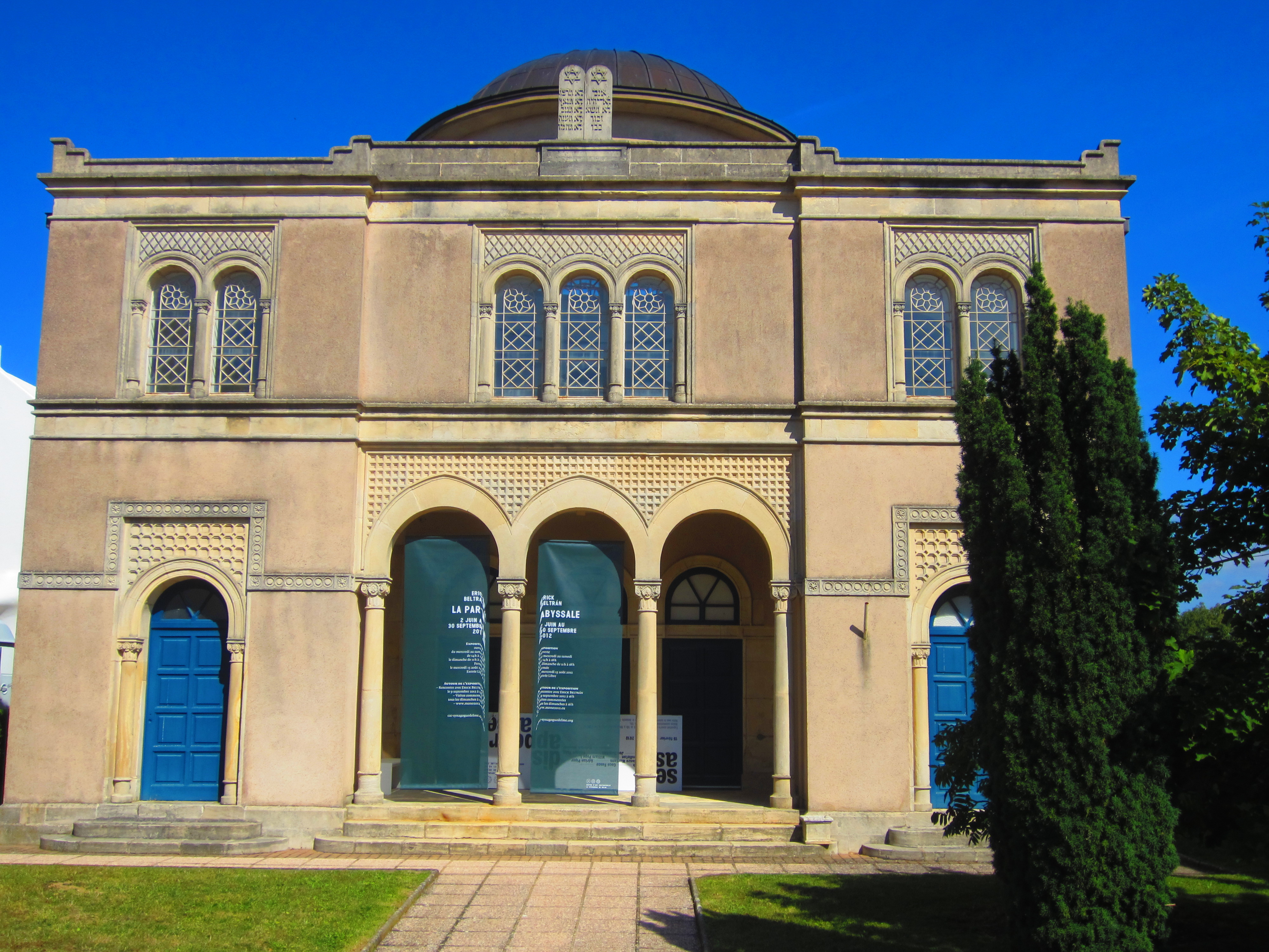 Synagogue Delme